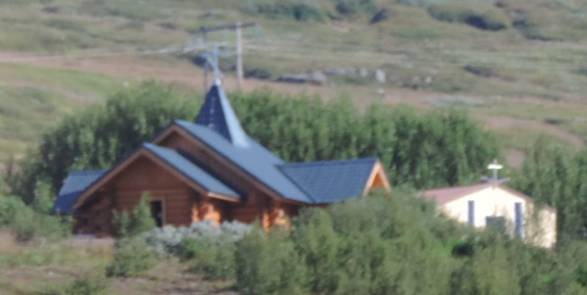 Catholic Church, Reyðarfjörður, Iceland